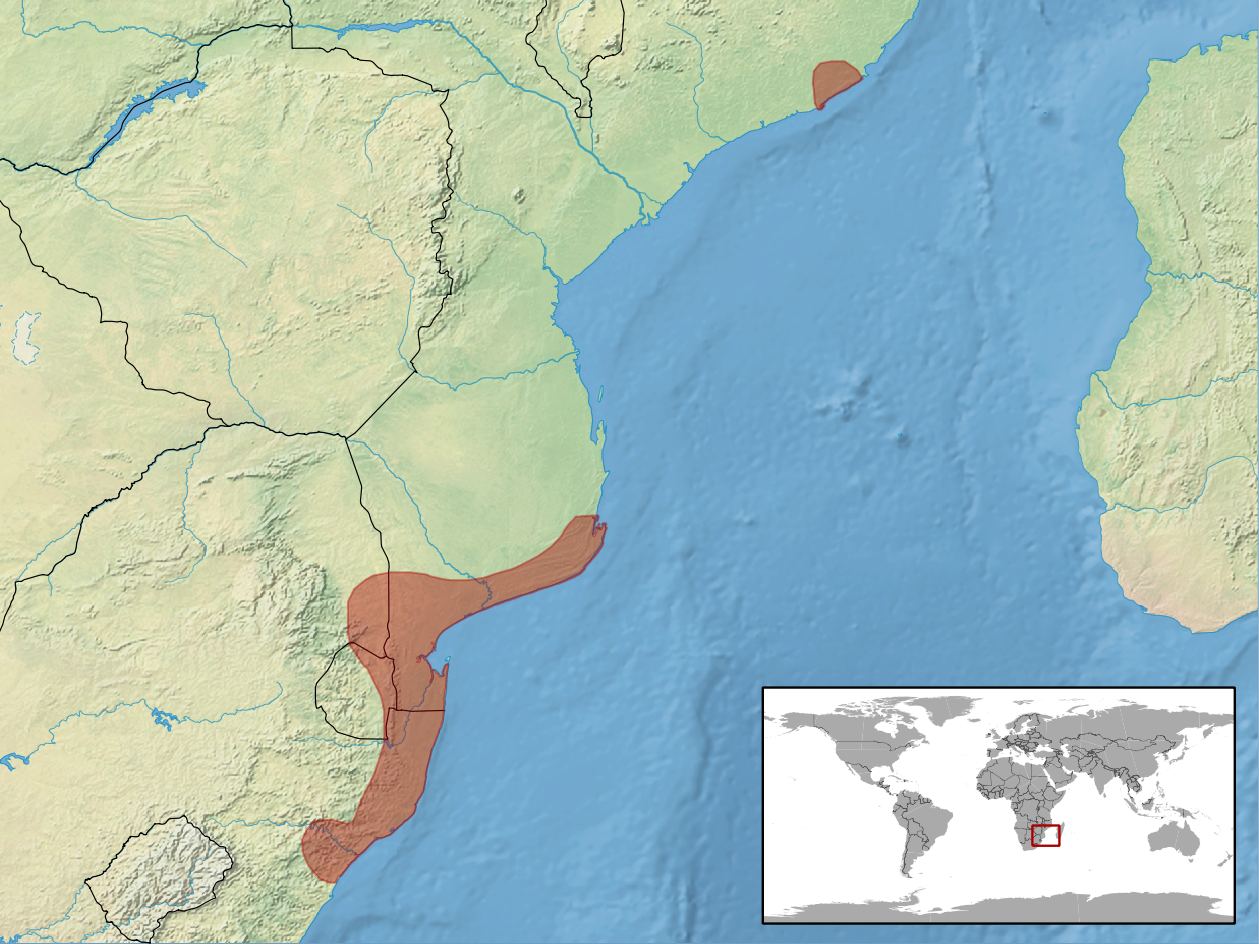 geographic distribution of Scelotes mossambicus